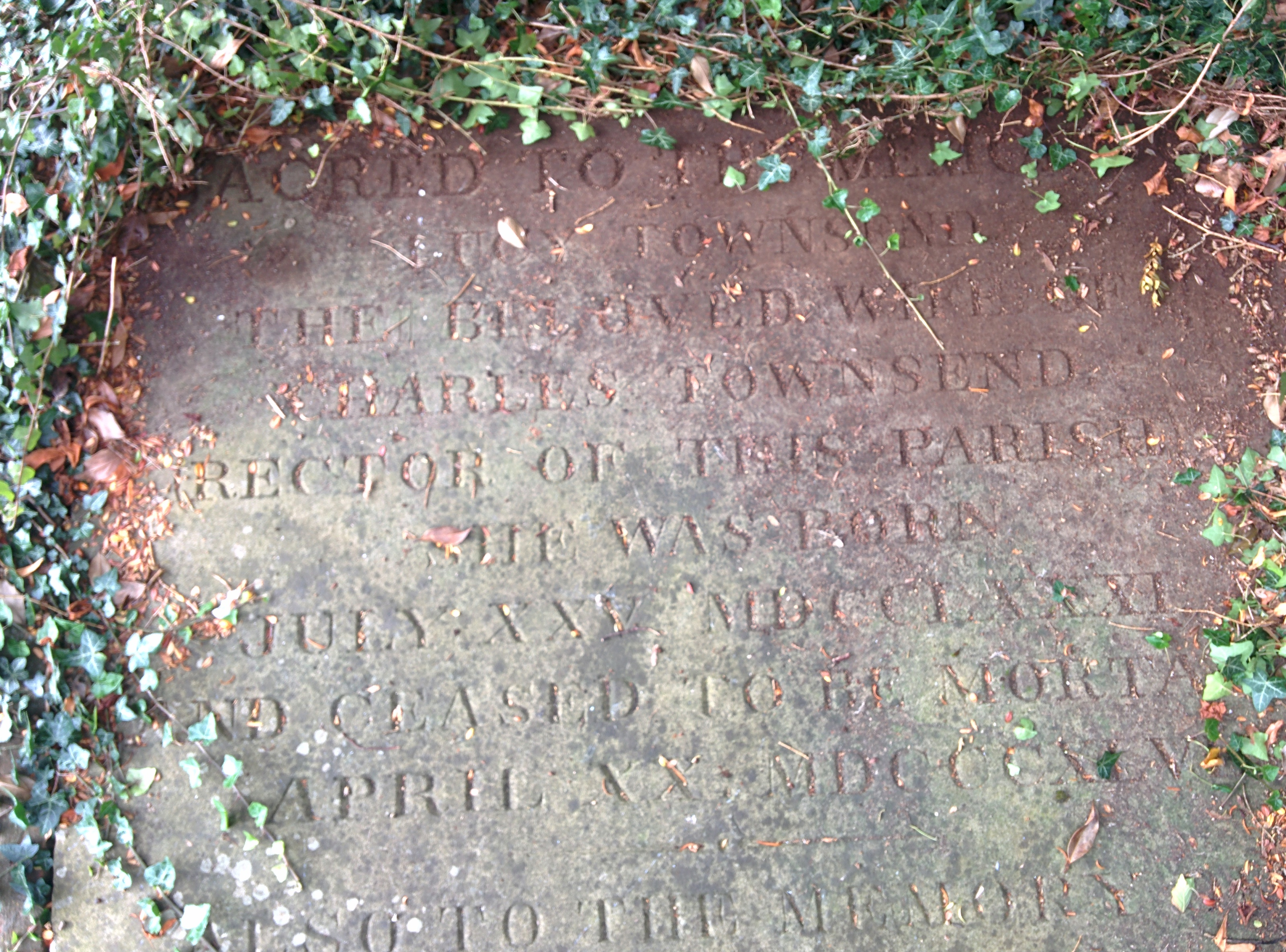 Lucy Townsend née Jesse (25 July, 1781 – 20 April, 1847) was a British abolitionist. She started the first Ladies Anti-Slavery Society in Birmingham titled The Ladies' Society for the Relief of Negro Slaves. She is buried in Thorpe church in Notts. Her grave says she ceased to be mortal in 1847